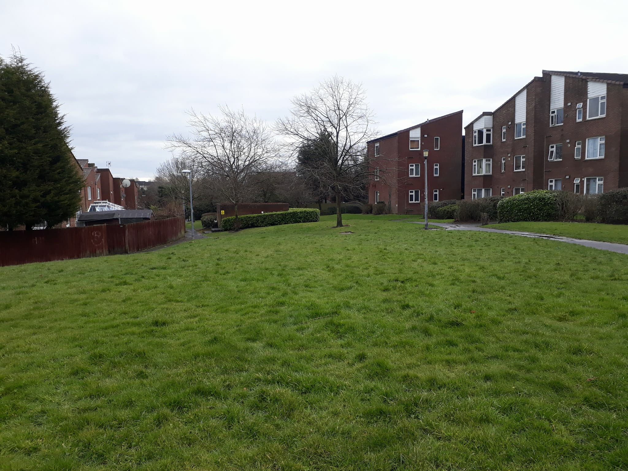 My own.